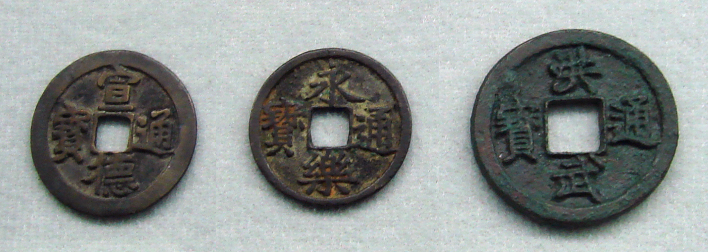 Ming_coinage_14th_15th_century.